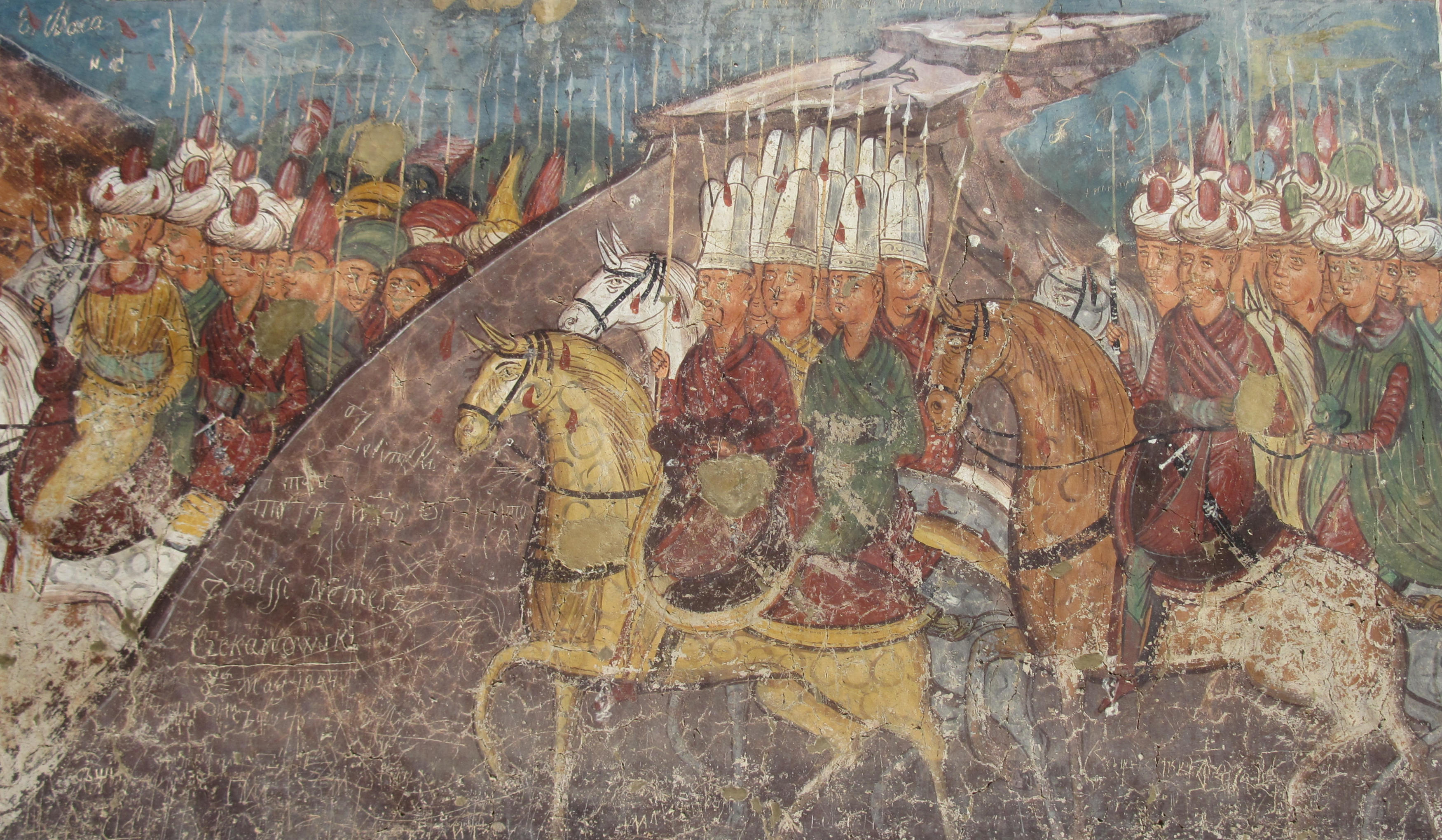 Moldoviţa Monastery, Romania. The church is one of the Painted churches of northern Moldavia listed in UNESCO's list of World Heritage sites.